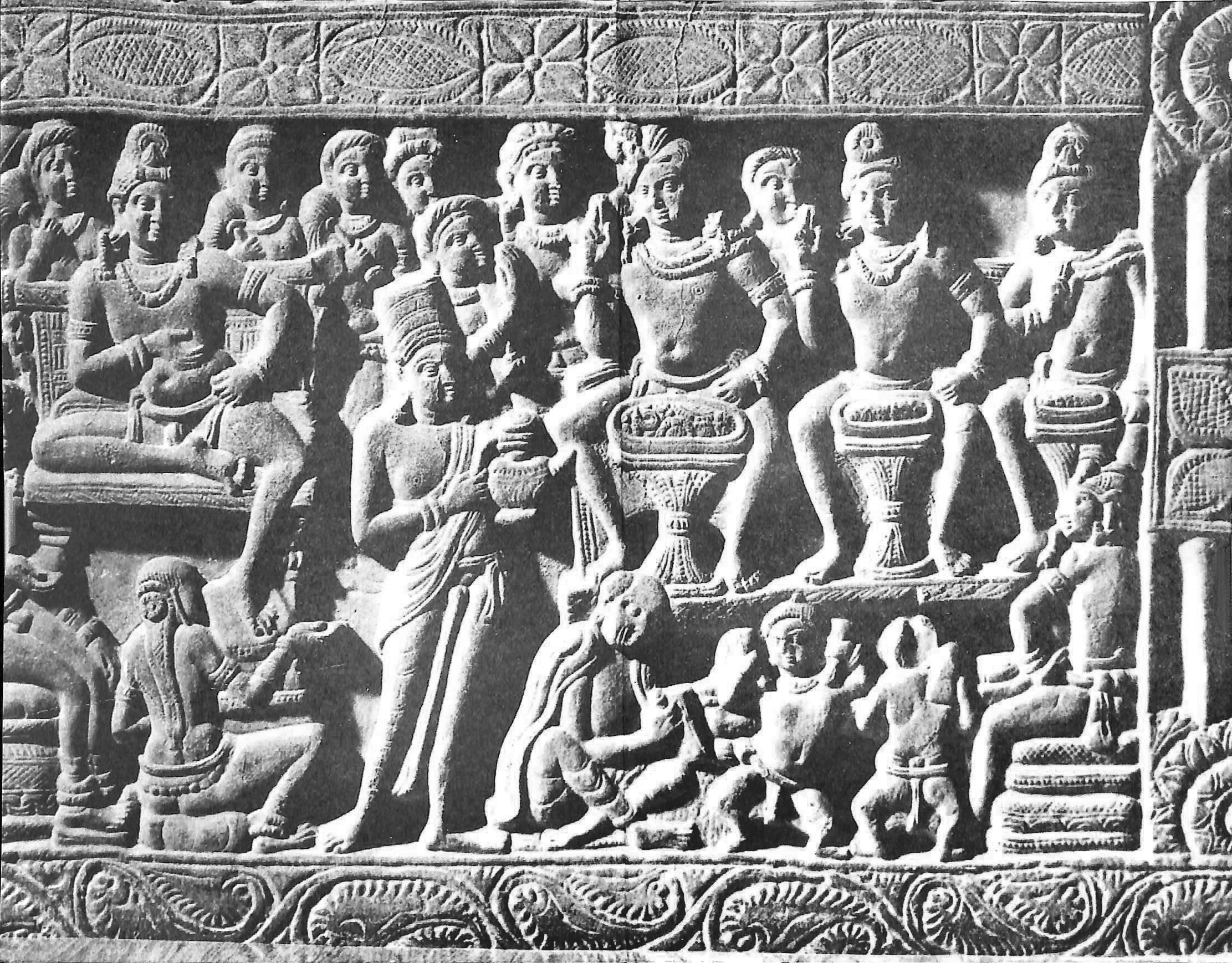 The sculpture depicts a scene where three soothsayers are interpreting to King Suddhodana the dream of Queen Maya, mother of Lord Buddha. Below them is seated a scribe recording the interpretation. This is possibly the earliest available pictorial record of the art of writing in India. ગુજરાતી: આ ચિત્રમાં ગૌતમ બુદ્ધની માતા માયારાણીને આવેલા સ્વપ્નનું અર્થઘટન રાજા શુદ્ધોદનને કહી સંભળાવતા ત્રણ પંડિતોને આલેખતા શિલ્પની પ્રતિકૃતિ જોવા મળે છે. ચિત્રના નીચેના ભાગમાં પંડિતોના અર્થઘટનને નોંધી લેતો લહિયો નજરે પડે છે. ભારતમાં લેખનકલા અંગેનું આ કદાચ પ્રાચીનતમ ચિત્રાંકન છે. (નાગાર્જુનકોન્ડા, ઈશુની બીજી સદીનું શિલ્પ)